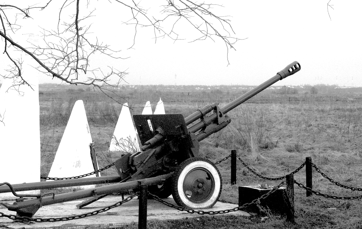 Gun and anti-tank obstacles. The monument: "Leading edge of defence of the Leningrad. 1941-44 years", Tosnensky District, Russia.